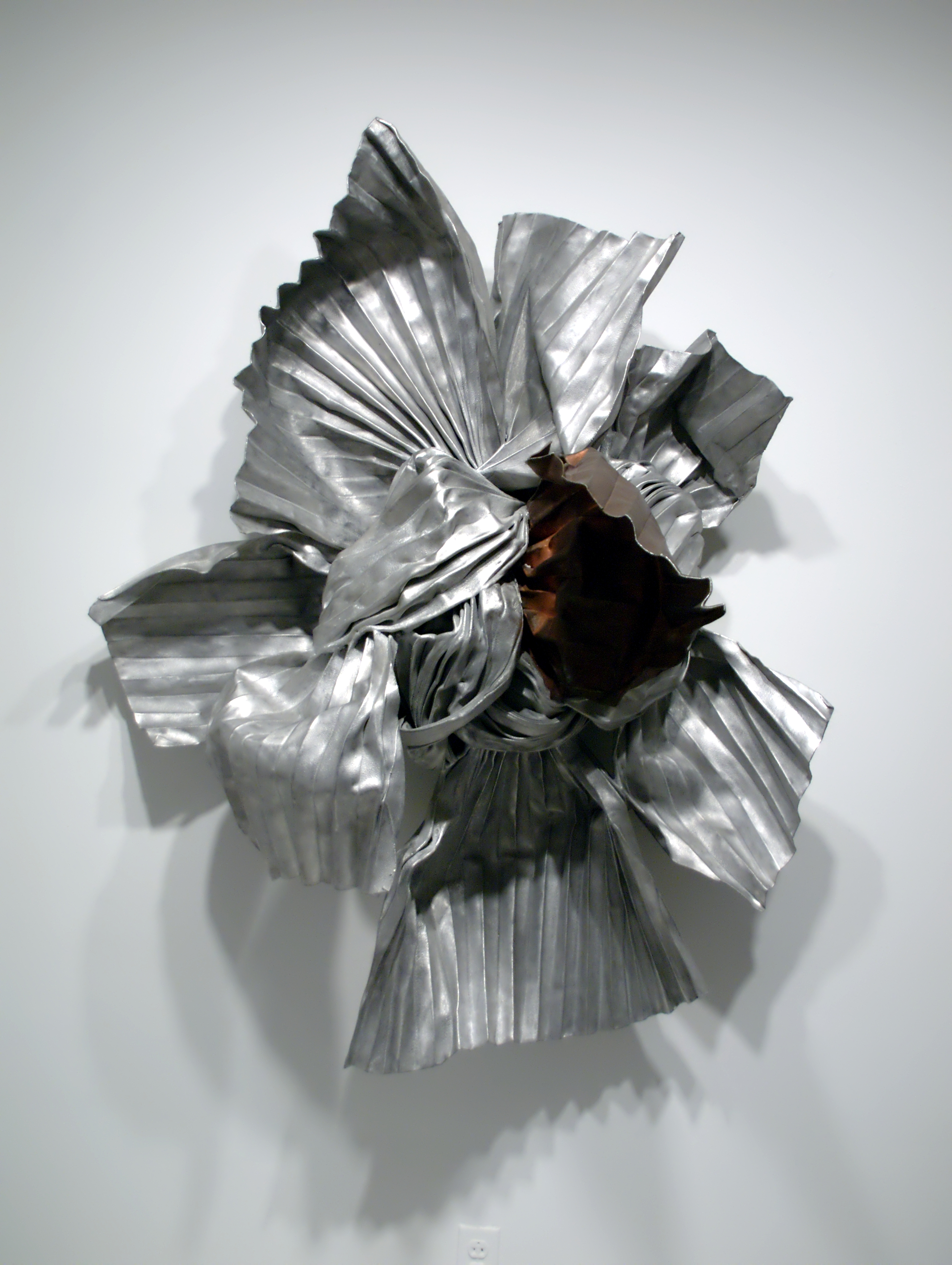 See also: (... where the image appears to have been flipped?).